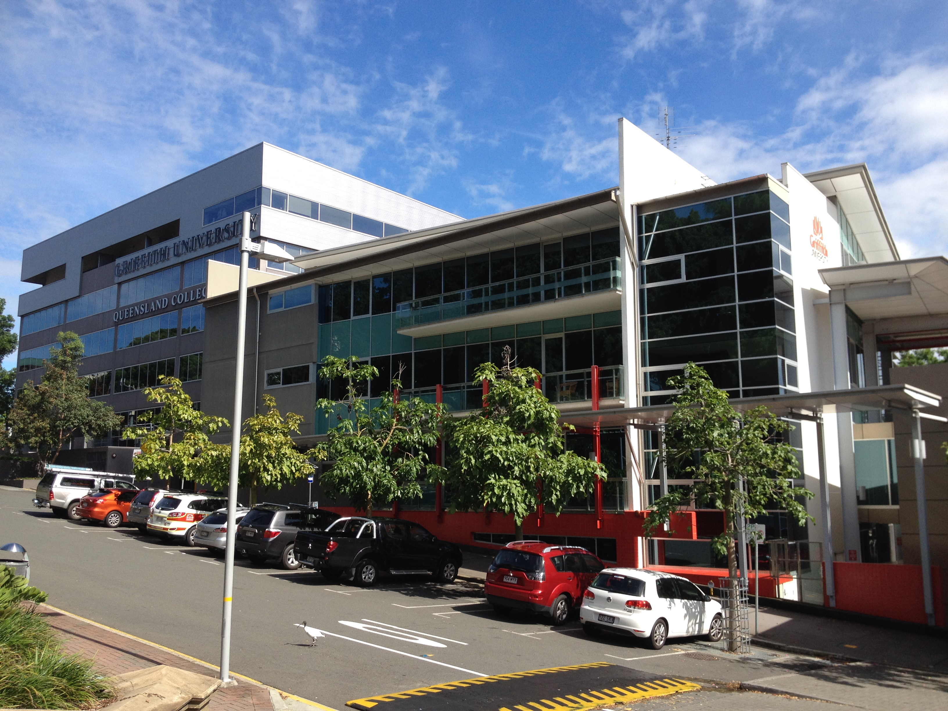 Queensland College of Art, Griffith Graduate Centre, Sidon Street façade